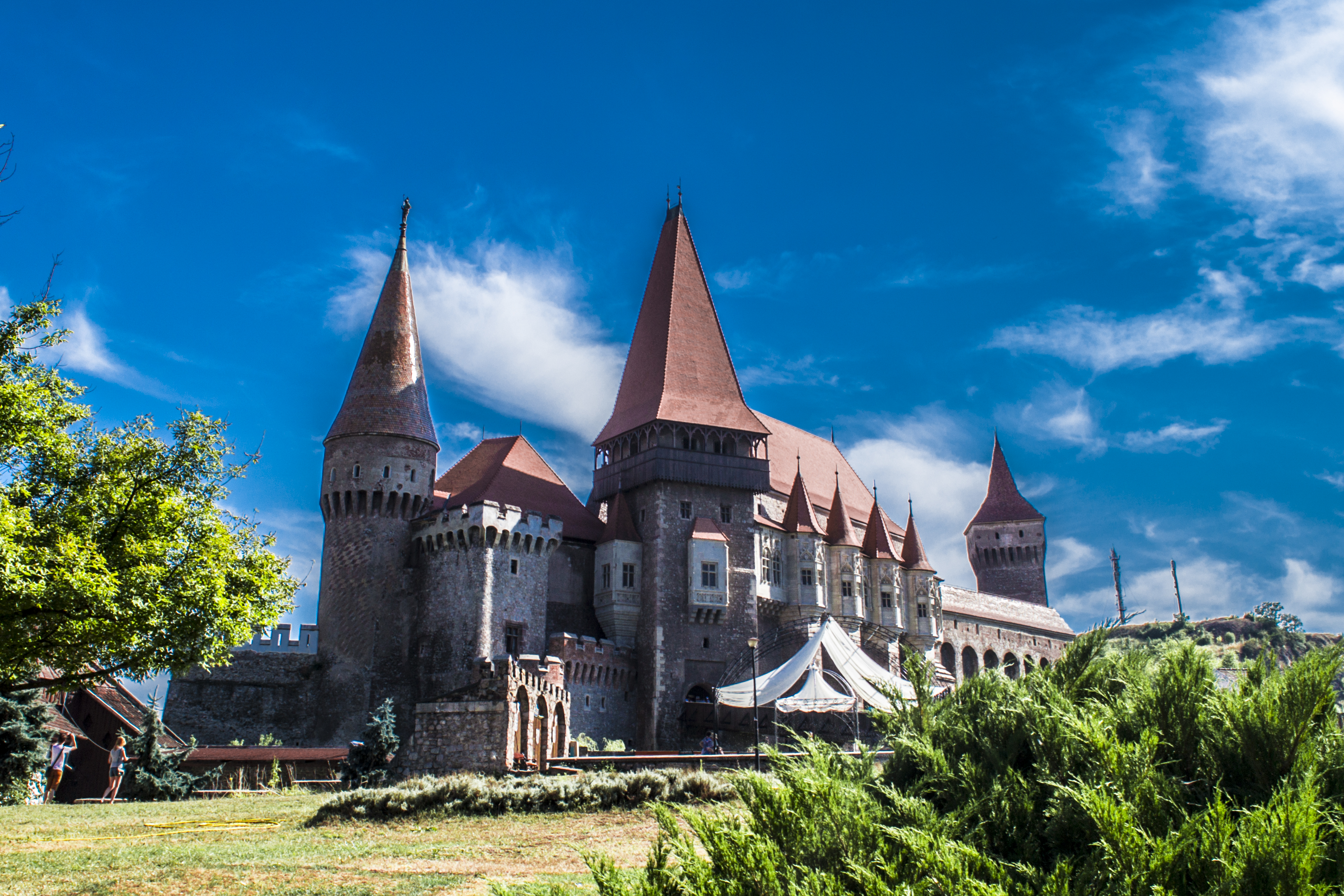 Exterior of Hunedoara Castle